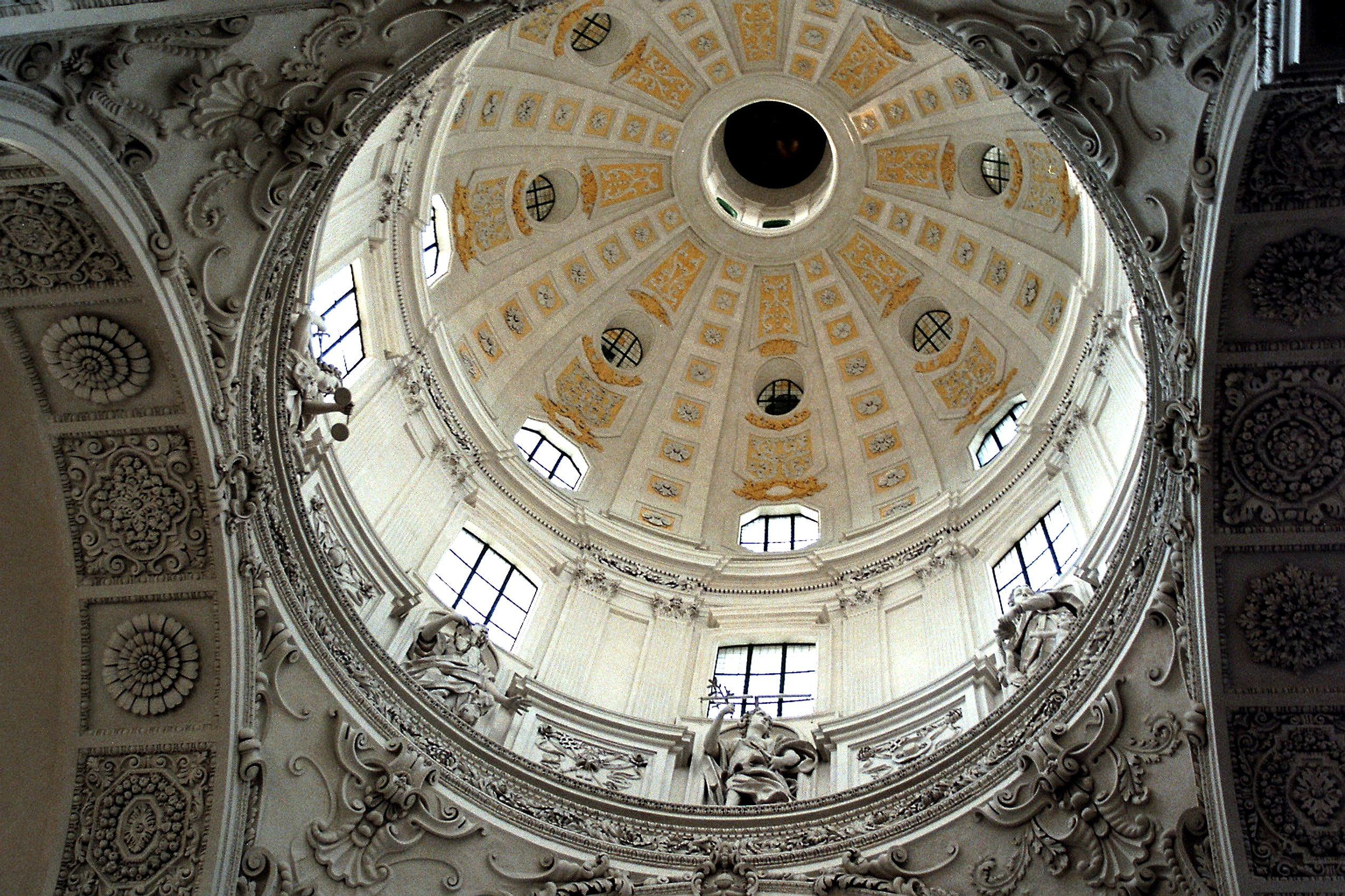 München, Kuppel der Theatinerkirche This is a photograph of an architectural monument. 22